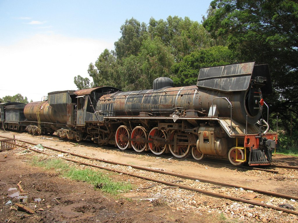 Class 19D-2644 "Wardale" photographed at SANRASM South Site. February 2011